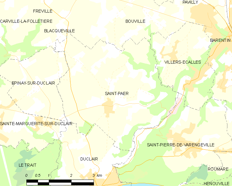 Map of French municipality Saint-Paër